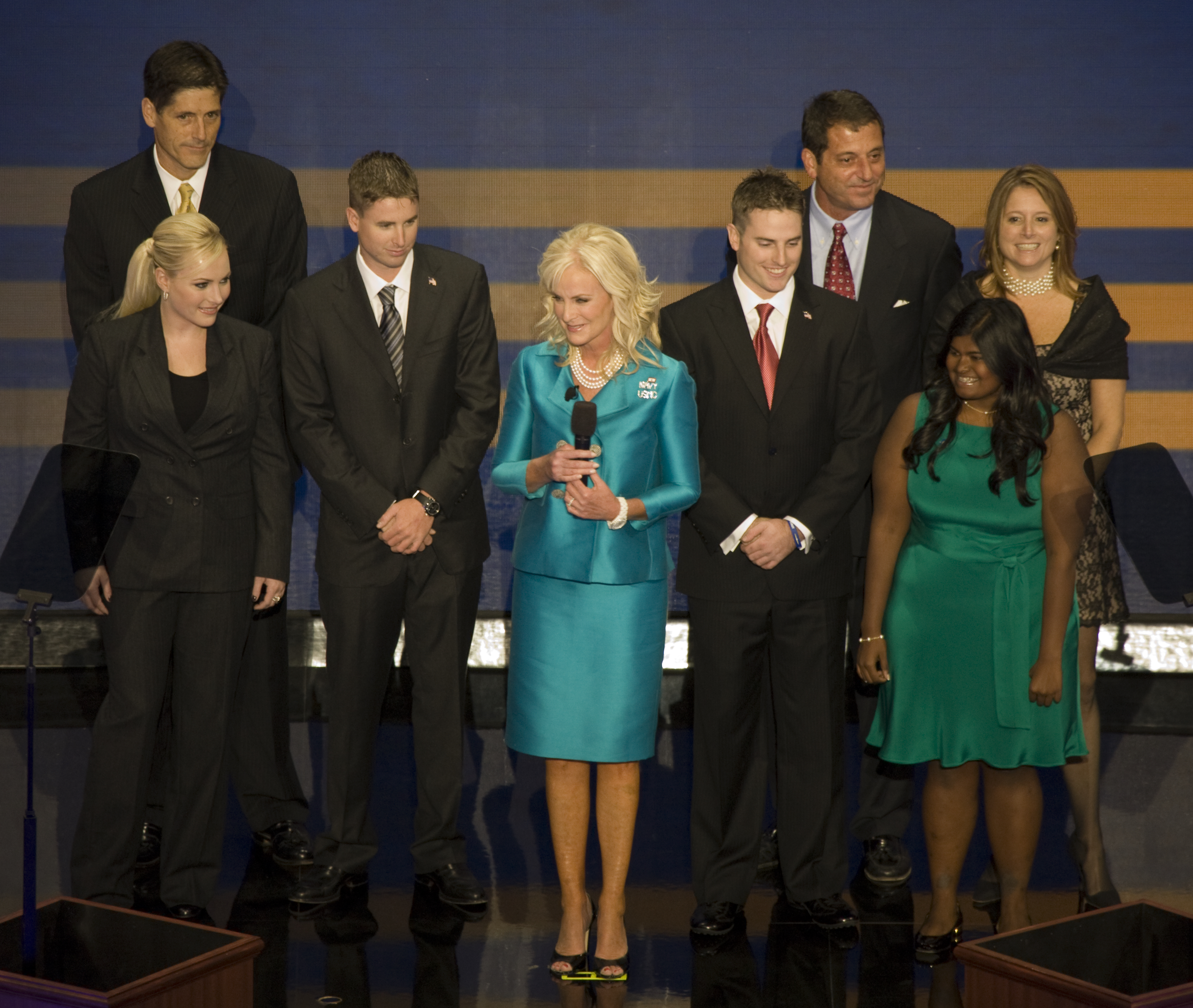 Title: Republican National Convention, September 1-4, 2008. Presidential candidate John McCain's family, wife Cindy in the middle in green outfit, St. Paul, Minnesota Physical description: 1 photograph : digital, TIFF file, color. Notes: Credit line: Photographs in the Carol M. Highsmith Archive, Library of Congress, Prints and Photographs Division.; Forms part of the Carol M. Highsmith Archive.; Gift; Carol M. Highsmith; 2009; (DLC/PP-2009:083).; Title and date provided by the photographer.